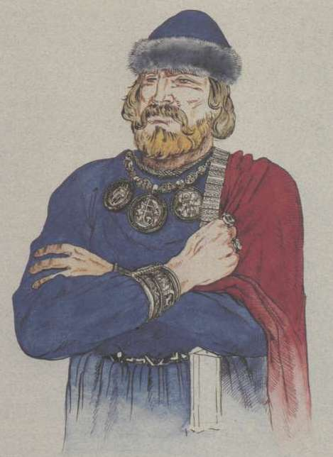 Batu Khan 12th century